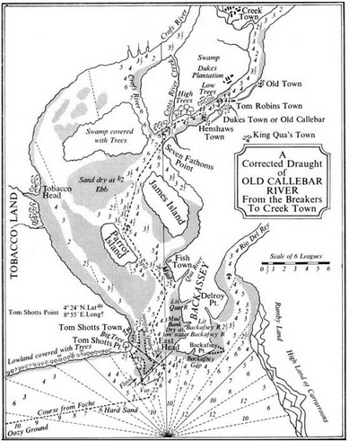 Map of the mouth of the Old Calabar River in 1820